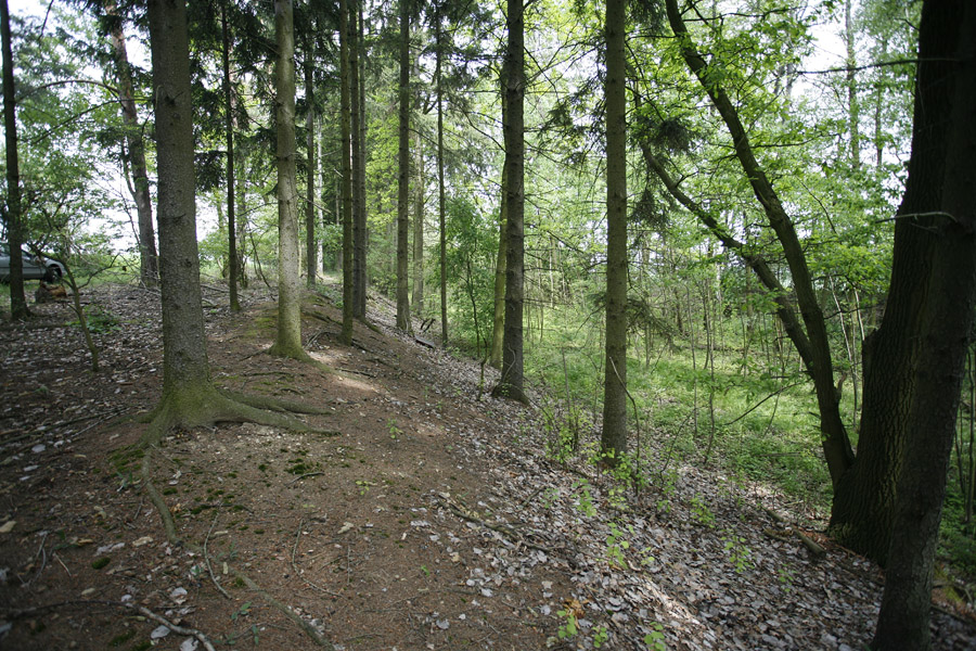 Devils furrow, between villages Kachni Louze and Radlice